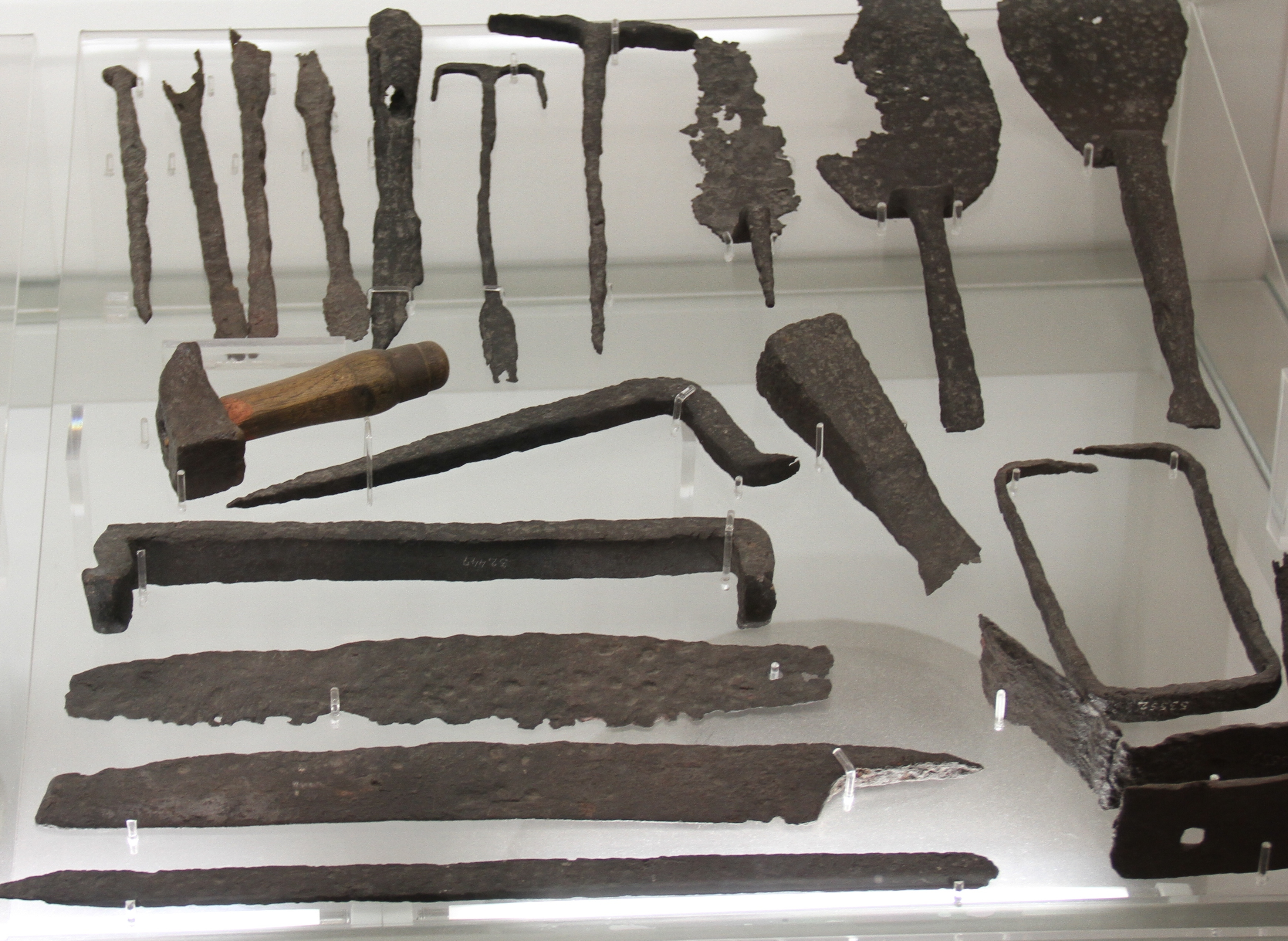 Carpentry tools from the 2-4th century found in Aquincum, and diaplayed in the Budapest History Museum, Buda Height, Hungary.